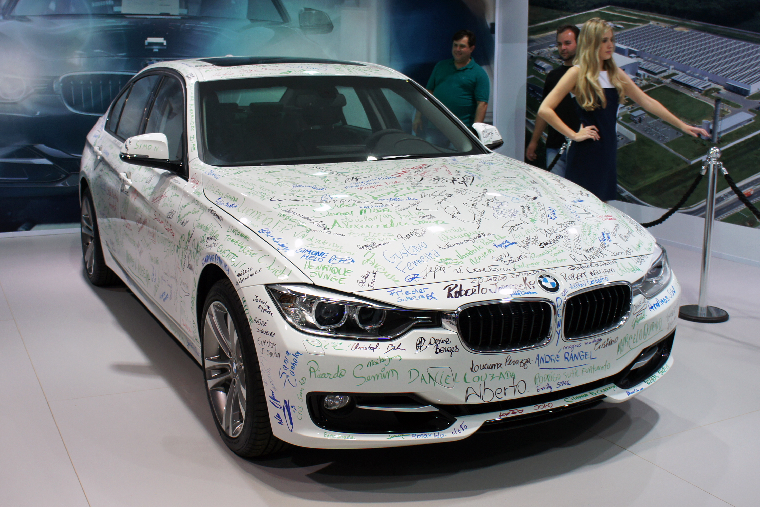 First BMW 328i ActiveFlex manufactured at the Araquari plant, in Santa Catarina, Brazil. October 2014. The car was signed by all the workers on the production line.